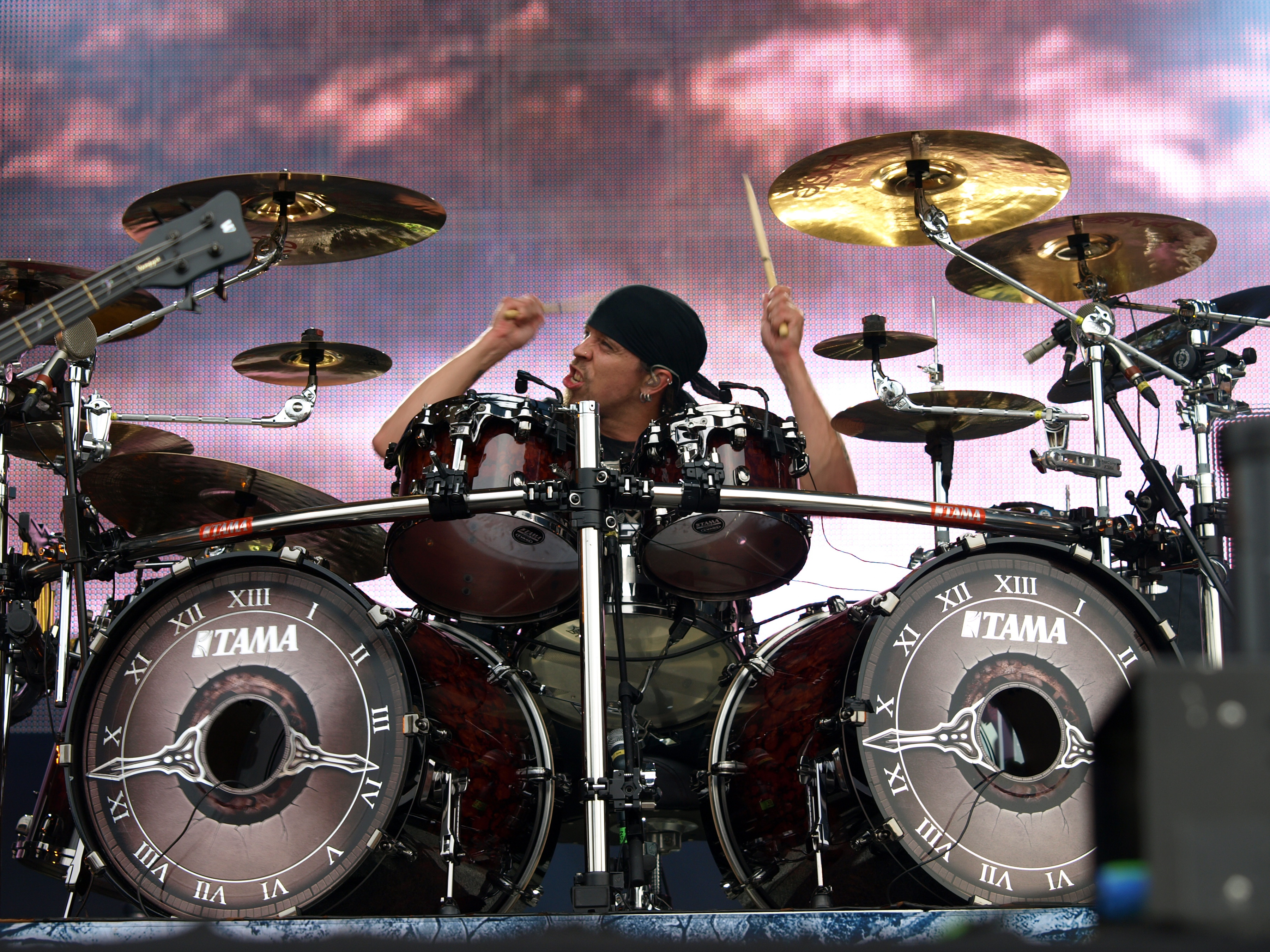 Finnish band Nightwish at Tuska Open Air 2013